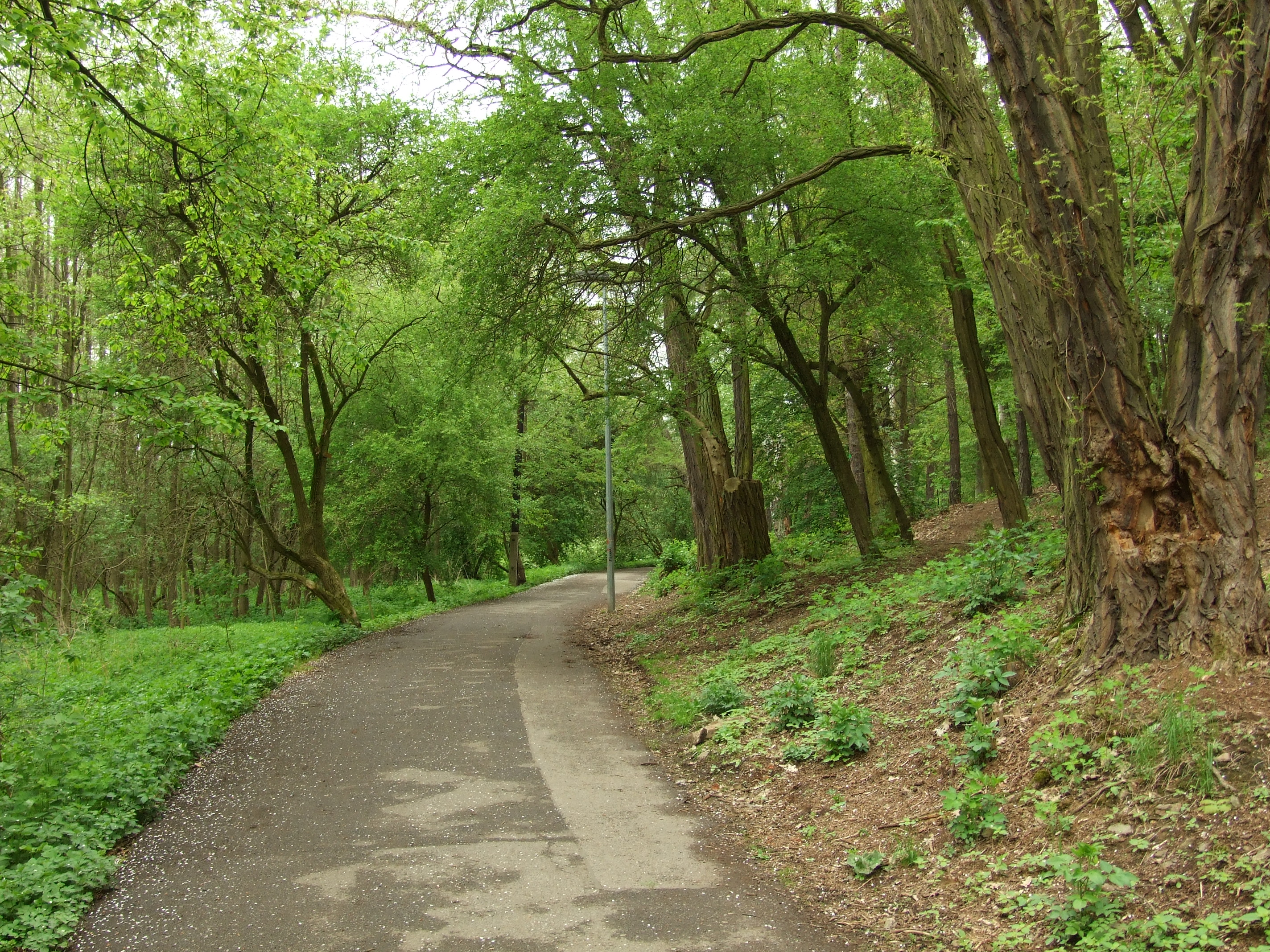 A path through Hostivař-Záběhlice nature park in Botič valley near Hostivař dam, Hostivař, Prague, CZ